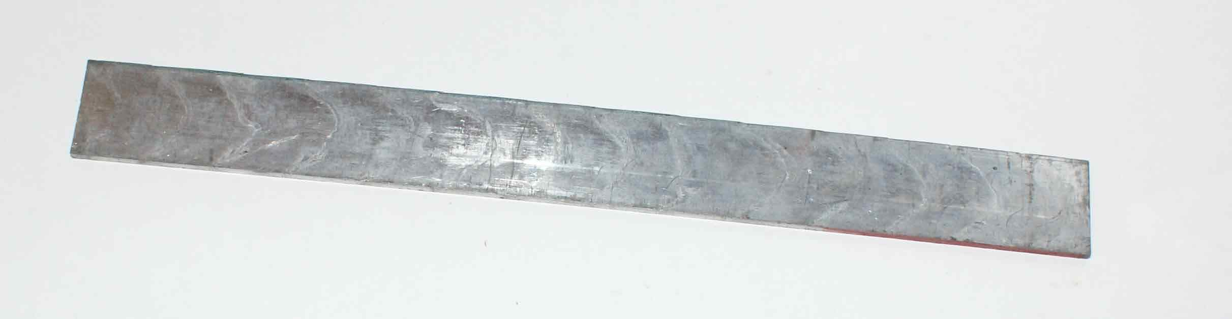 Metal strip cast by Elrod machine- used for spacing type Accession Number: hh.4748.32b.88 In the 1920s printers? composing rooms were undergoing their first transformation in nearly 500 years when old hand techniques gave way to new mechanical methods. One new machine that found its way into the composing room was the Elrod that was produced by the Elrod Slug casting Company of Omaha until 1920 when the Ludlow Typograph Company of Chicago bought it out. The Elrod was used for making continuous strips of spacing material and rules. It was a comparatively small machine standing 3 ft high, 6 ft long and 2 ft deep. It was powered by electricity that was used to heat a crucible containing 80 lb of metal to temperatures of around 540� F. The molten metal was forced through the neck of the crucible in to a mould that chilled the stream in to a strip. Water was used to solidify the strip in to precisely the width and height required. The strip was then fed through a pulling mechanism that drew it to the length that was needed. After the strip was pulled to the required length, it went through a cutter head. Any length of strip could be cast from one inch to twenty-four inches, and to any thickness from one point to thirty-six points. The Elrod was used in conjunction with the Ludlow. Between them, the Elrod and the Ludlow provided the printer with a complete foundry and composing room, it allowed him to produce as much typeface and spacing material as was needed for his work. Used at Holmes McDougall, Edinburgh. Holmes McDougall were educational publishers based at 137 - 141 Leith Walk, Edinburgh. Edinburgh City of Print is a joint project between City of Edinburgh Museums and the Scottish Archive of Print and Publishing History Records (SAPPHIRE). The project aims to catalogue and make accessible the wealth of printing collections held by City of Edinburgh Museums. For more information about the project please visit